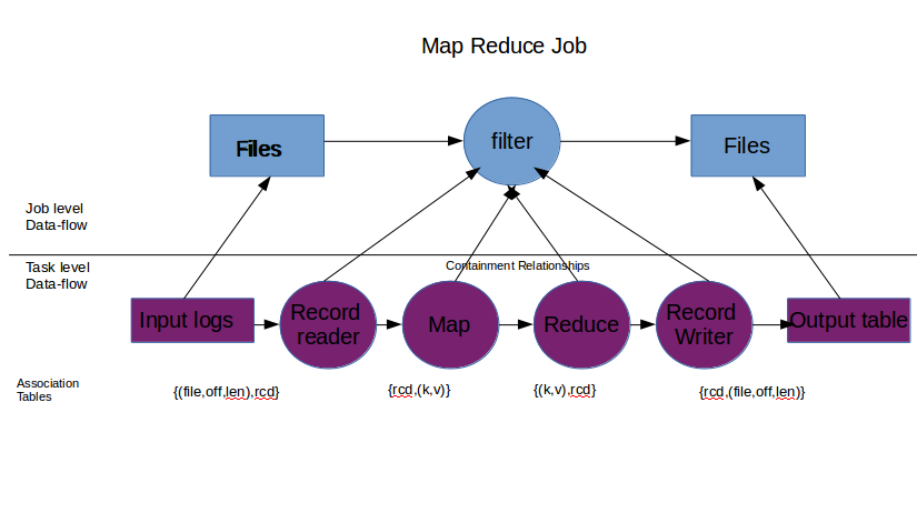 Map Reduce Job showing containment relashionshpis